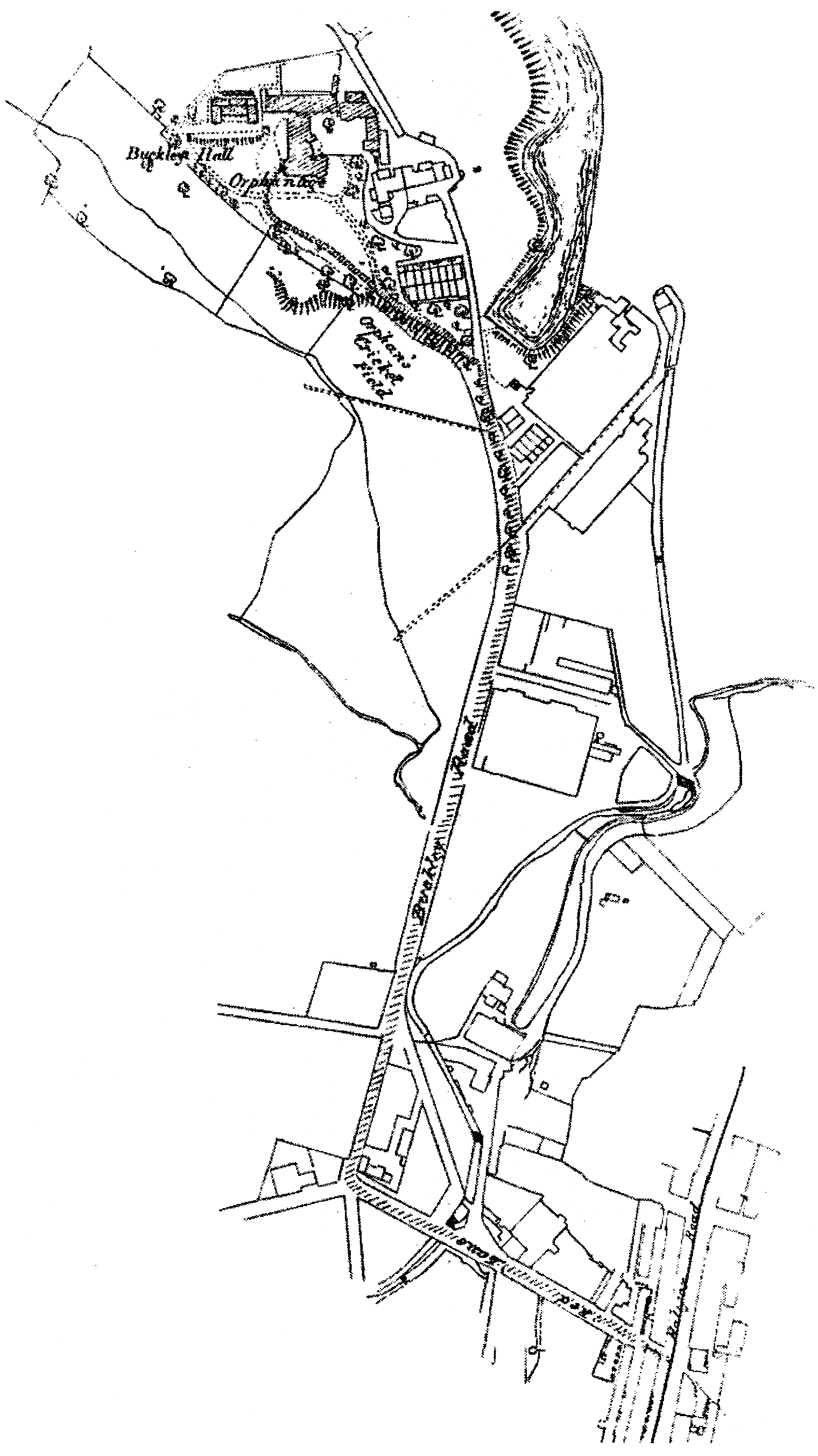 A map of Buckley, then in the Rochdale borough of Lancashire (now Greater Manchester), in North West England.